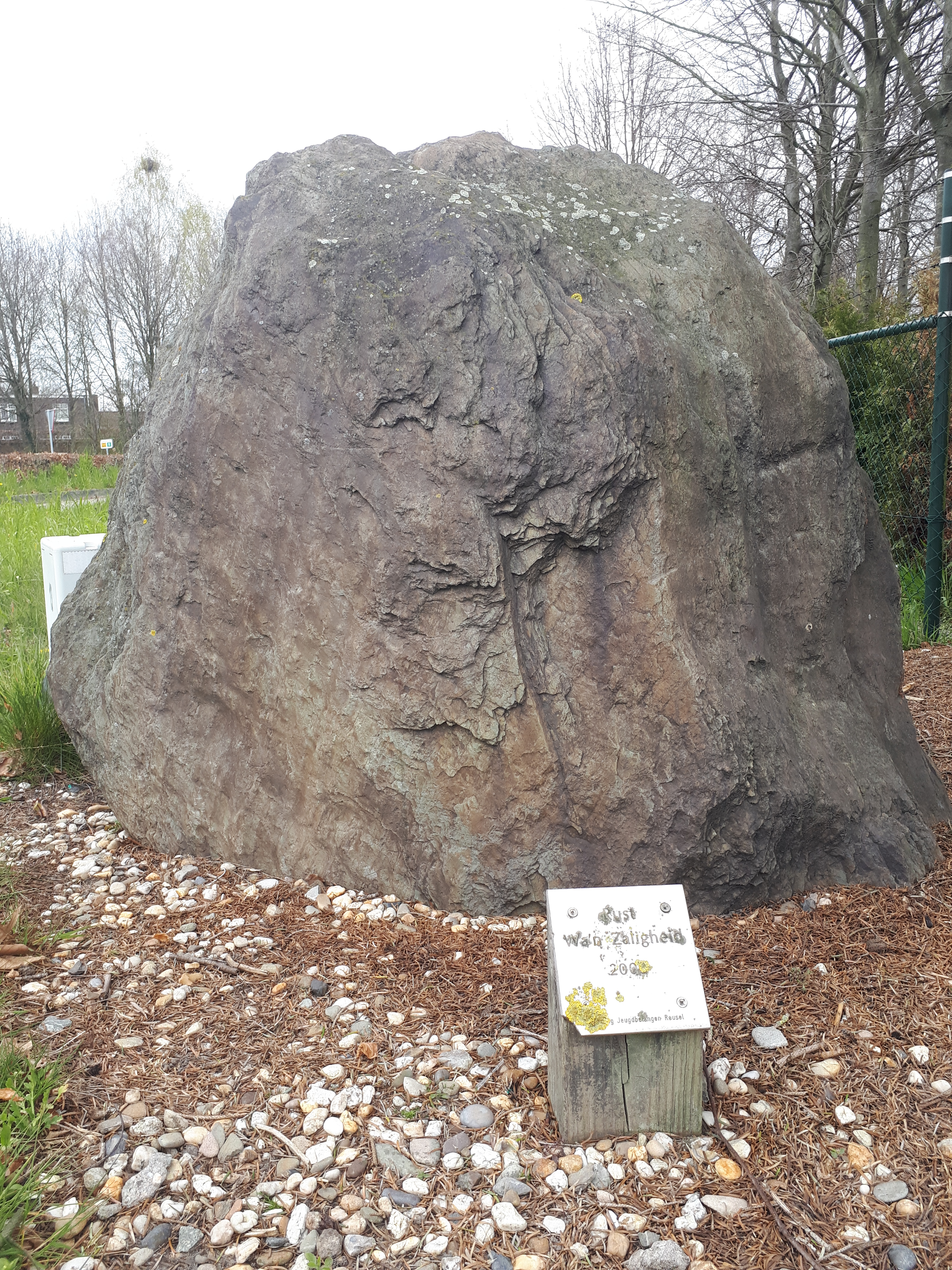 De Bladelse kei op zijn nieuwe locatie langs de N284, met de bespottende tekst: Rust, wat een Zaligheid.